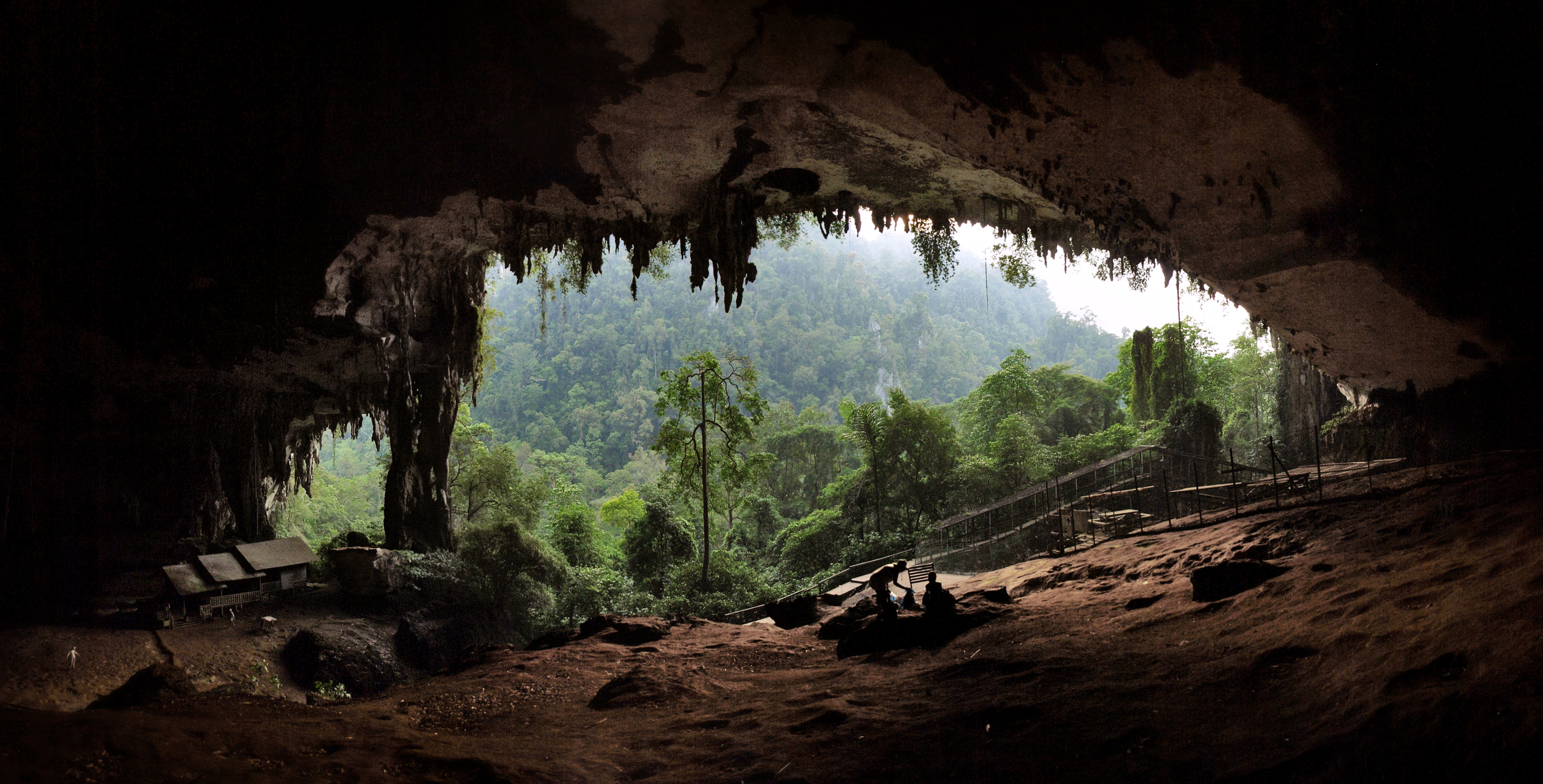 The entrance to the main cave at Niah Caves National Park, Miri, Sarawak, East Malaysia.